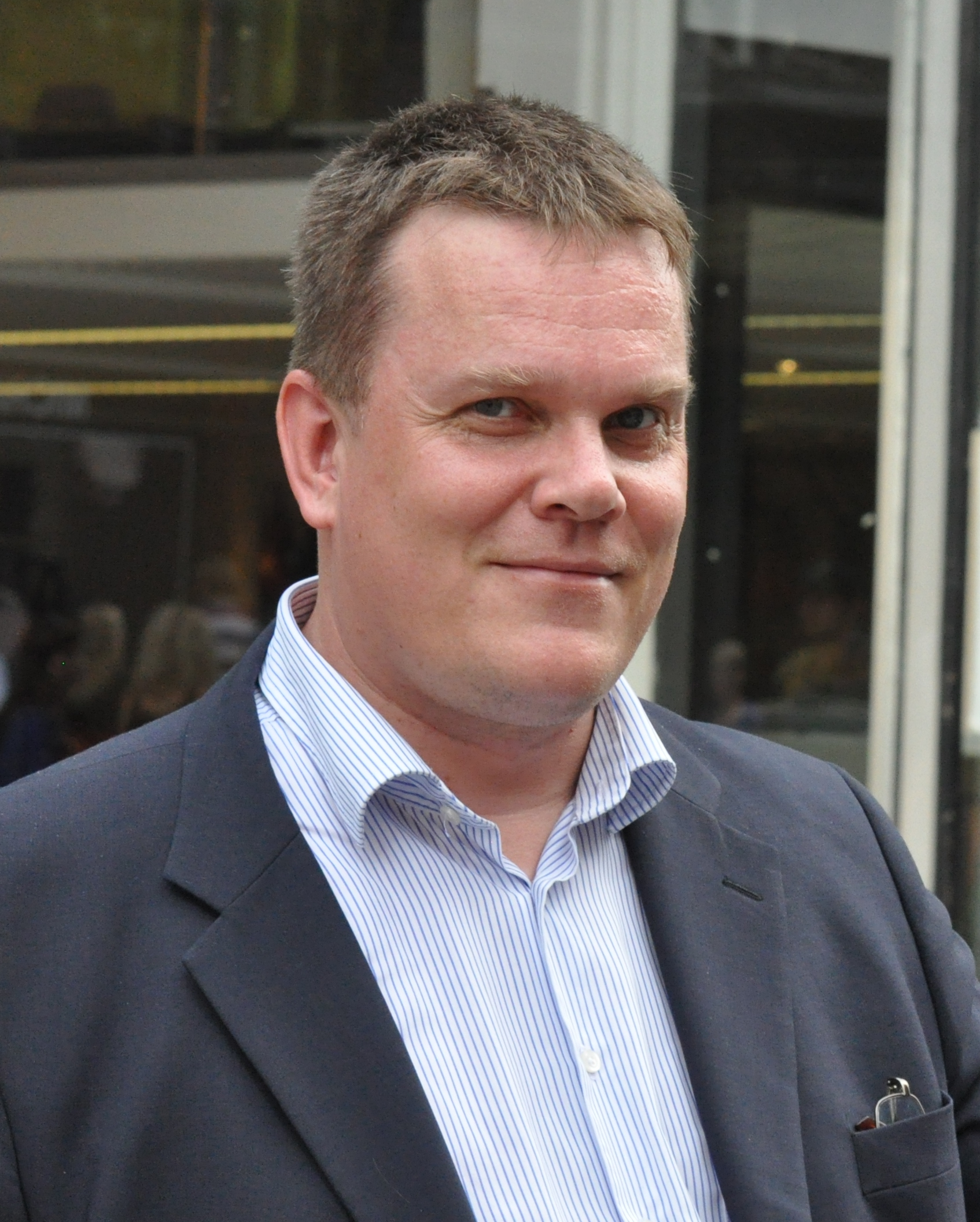 Former party secretary of the Centre Party of Finland Jarmo Korhonen in Helsinki, 2011.